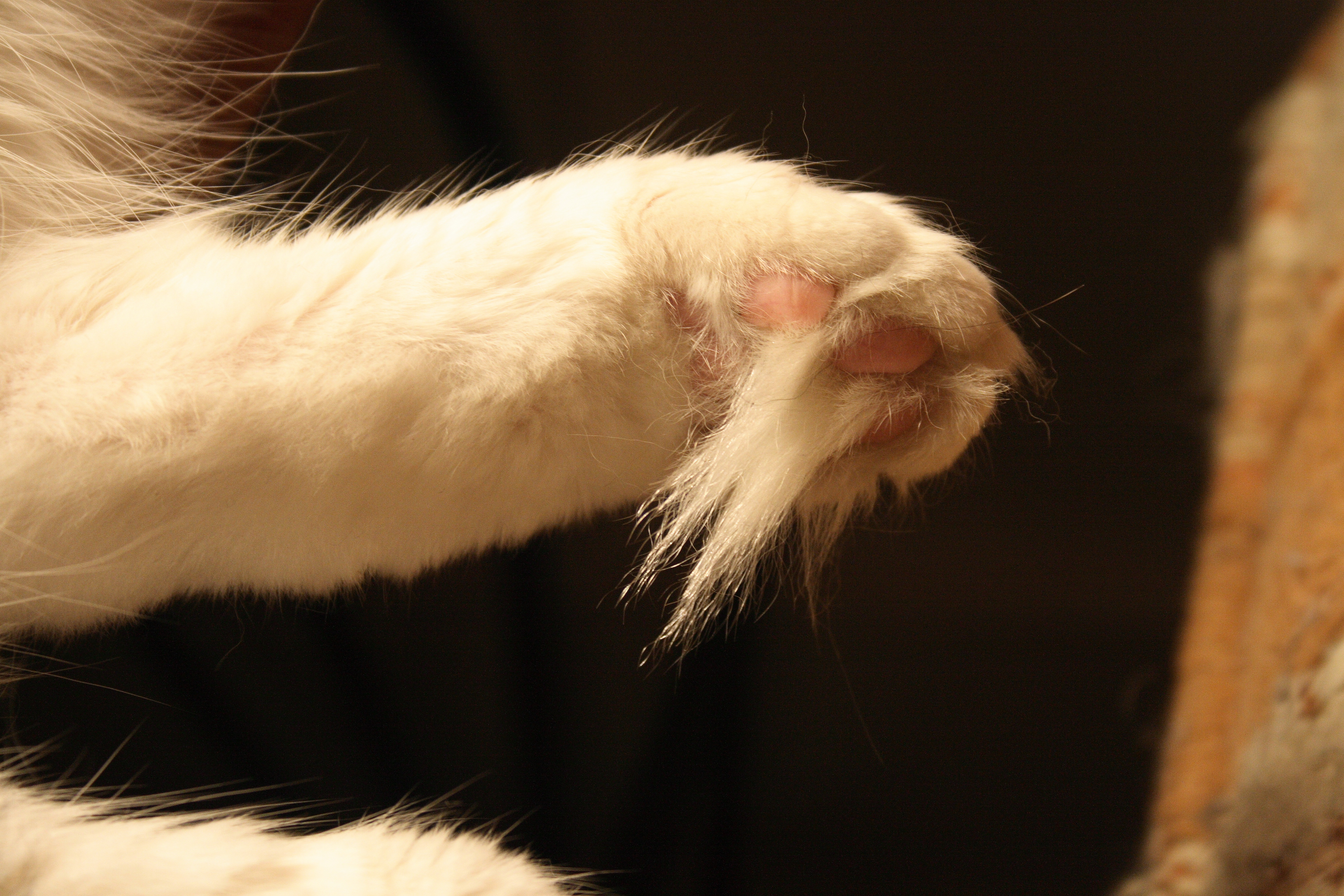 Paws of Maine Coon cat showing typical fur tufts between paw pads.